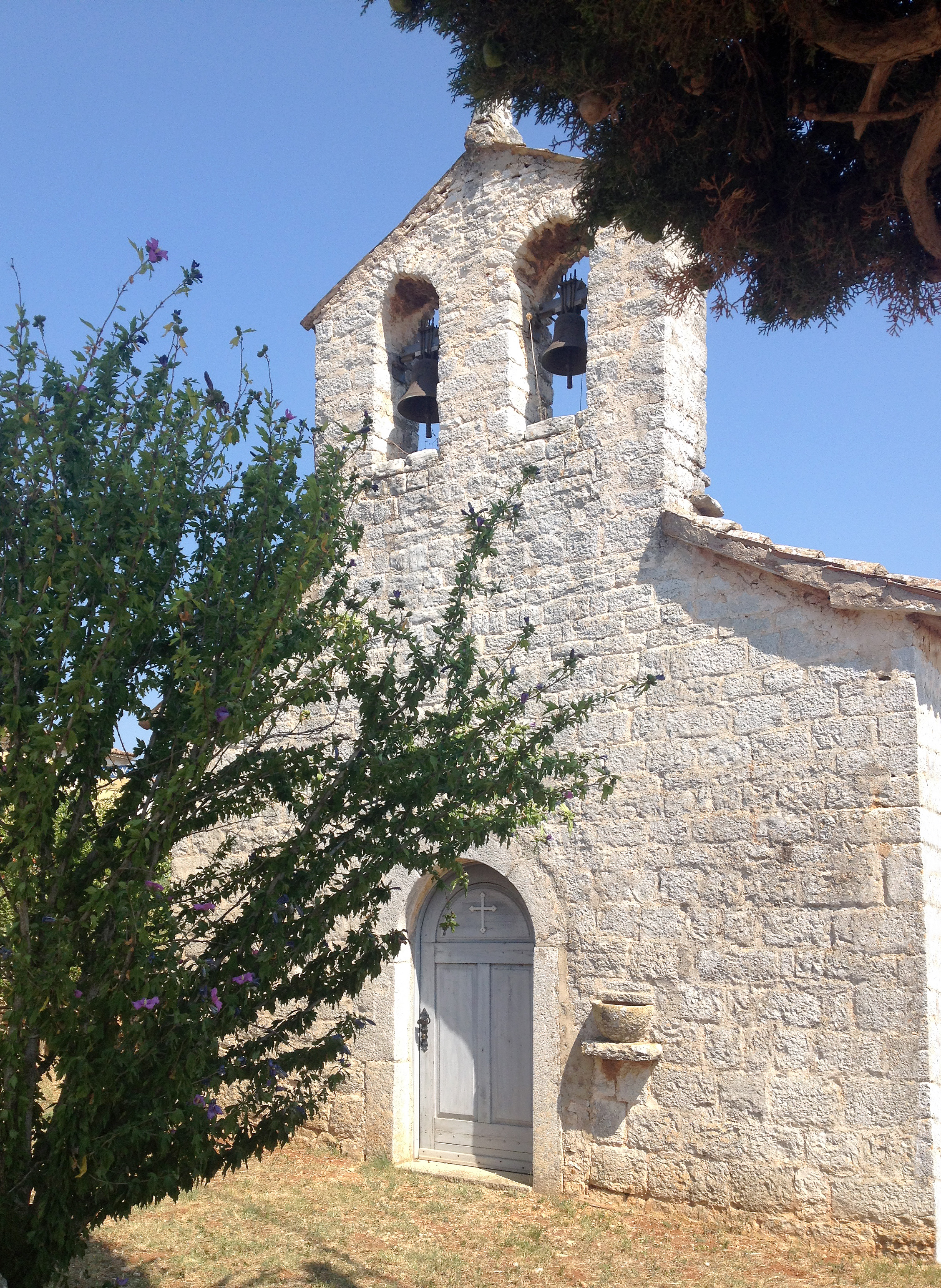 Chapel in Labinci in Istria